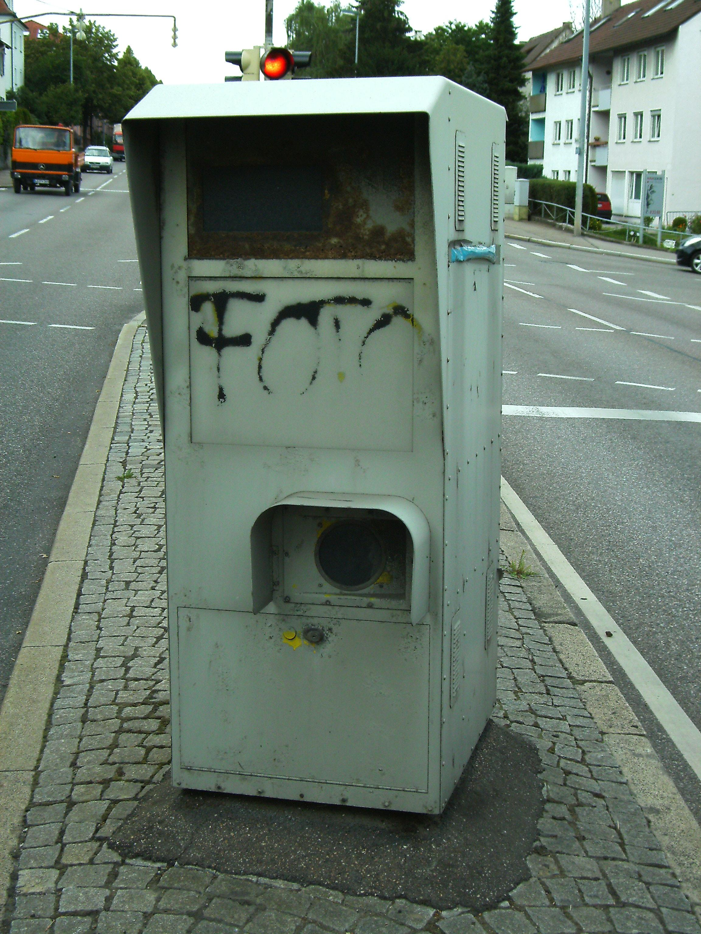 Older permanent radar speed limit supervision unit in Ludwigsburg at 48°53'21"N 9°12'18"E, which photographs everyone who drives faster than 50 kilometres per hour. Note the graffiti!